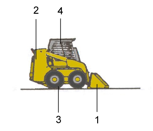 Schema of a skid-ster loader with the four main components: 1. attachment (bucket) 2. engine 3. wheels/running gear 4. driver's cab